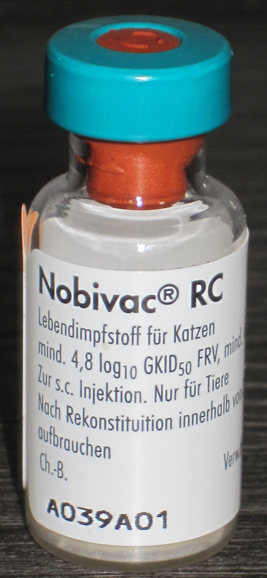 Cat flu vaccine